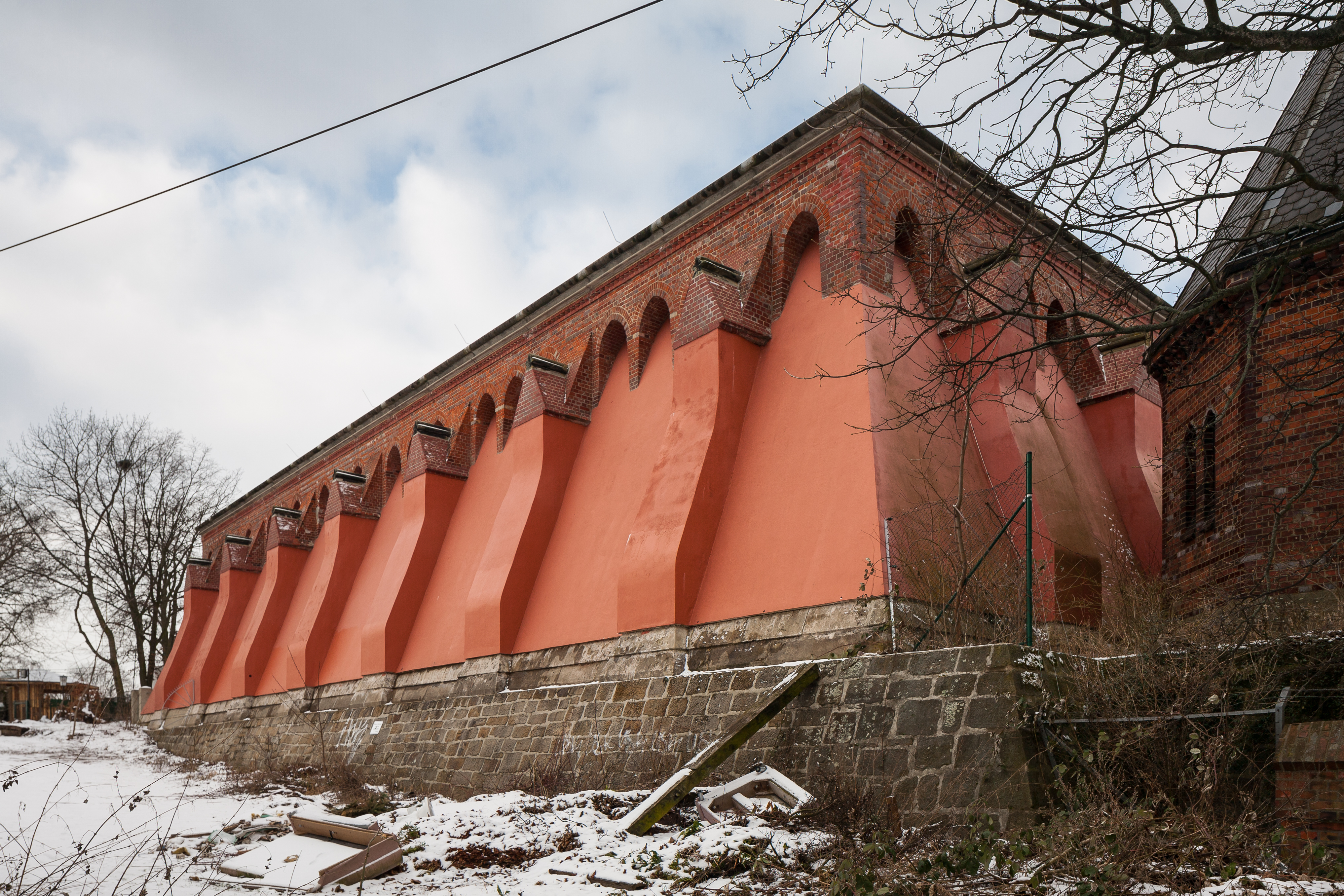 Water tank located in Hanover, Germany. Build from 1876 to 1878.